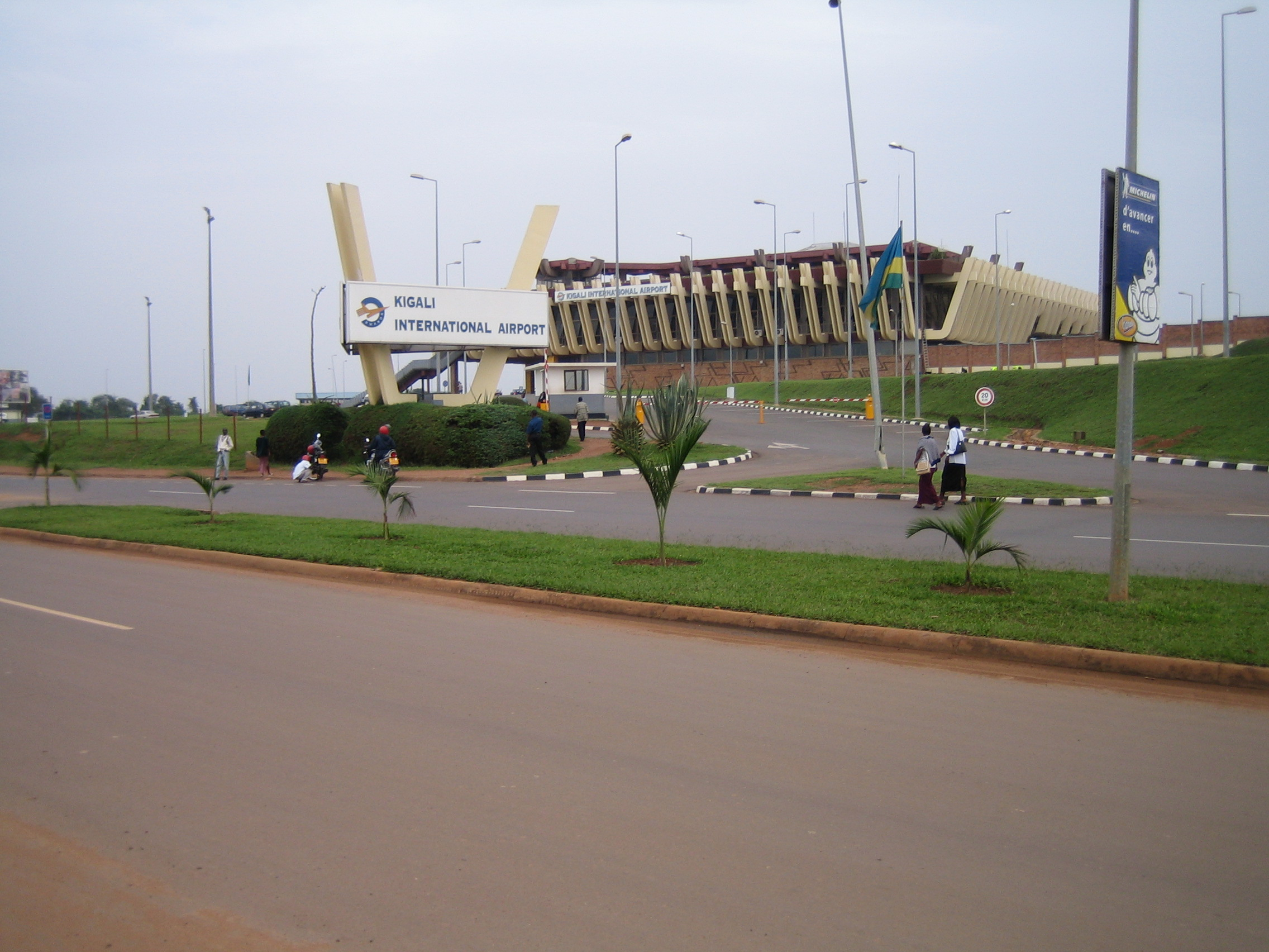 Kigali International Airport (HRYR) terminal in Kigali, Rwanda